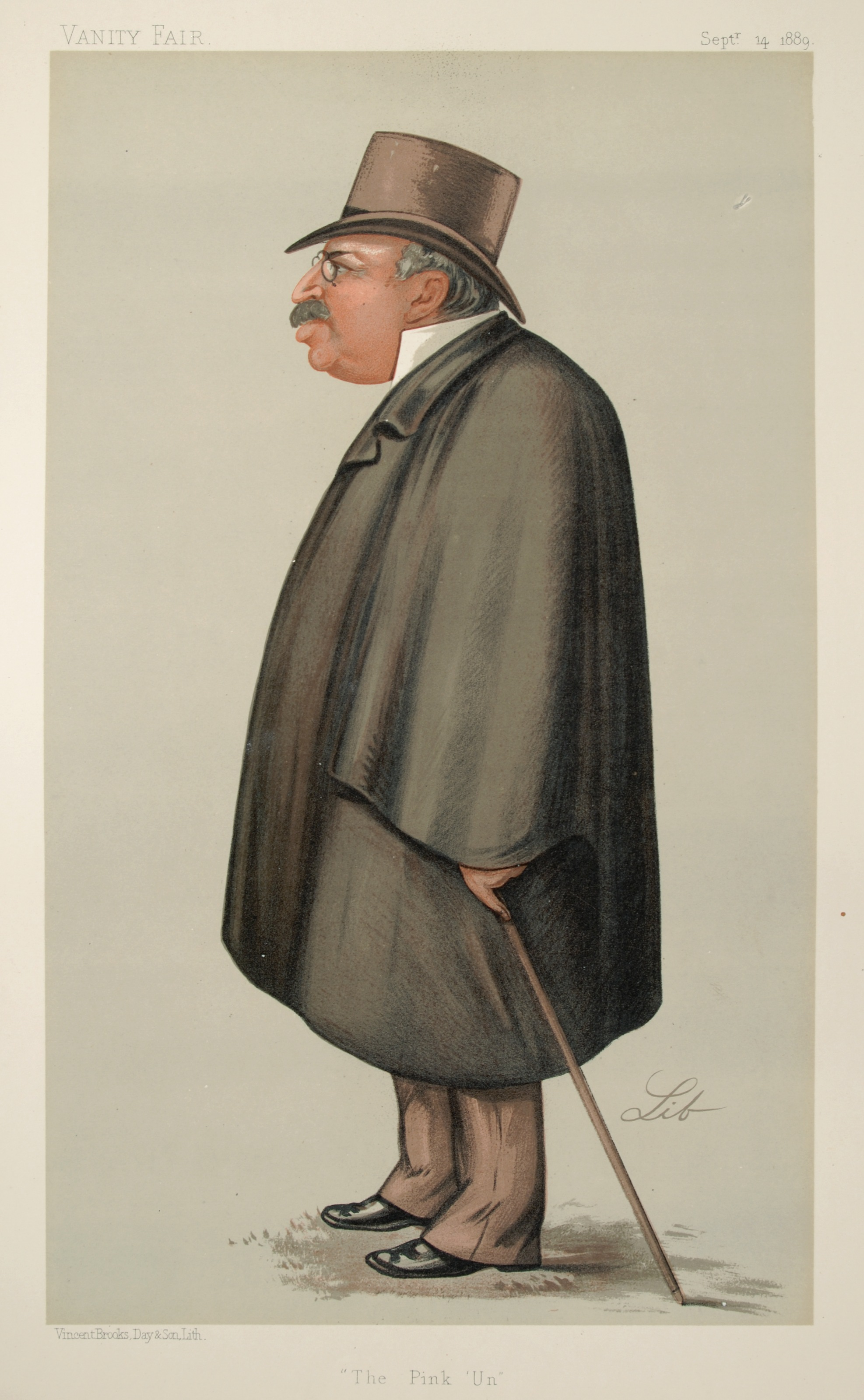 Men of the Day No. 440: Mr. John Corlett, editor of "The Pink 'Un" Lithograph Sept. 14, 1889, 15"x10.5", Vanity Fair portrait